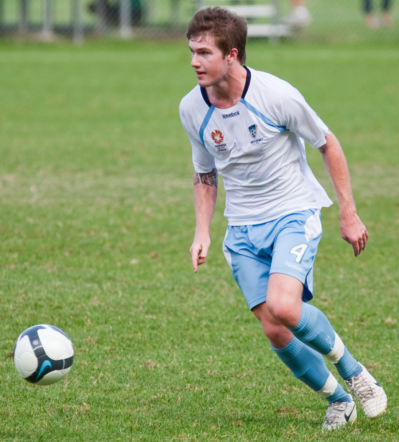 Joey Gibbs playing for the Sydney FC youth team.